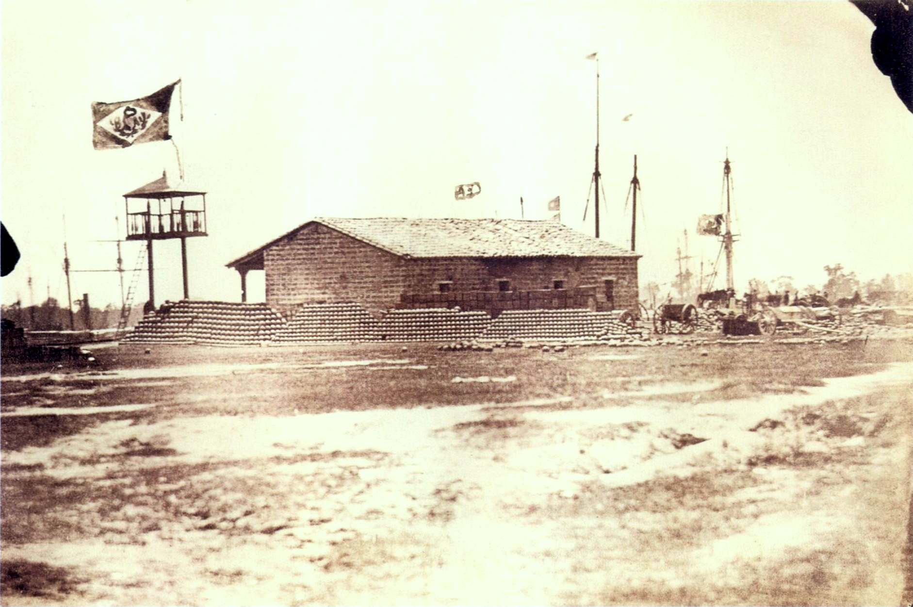 The port of Humaitá fortress seen from land and at the background, the masts of the anchored Brazilian warships, c.1868.